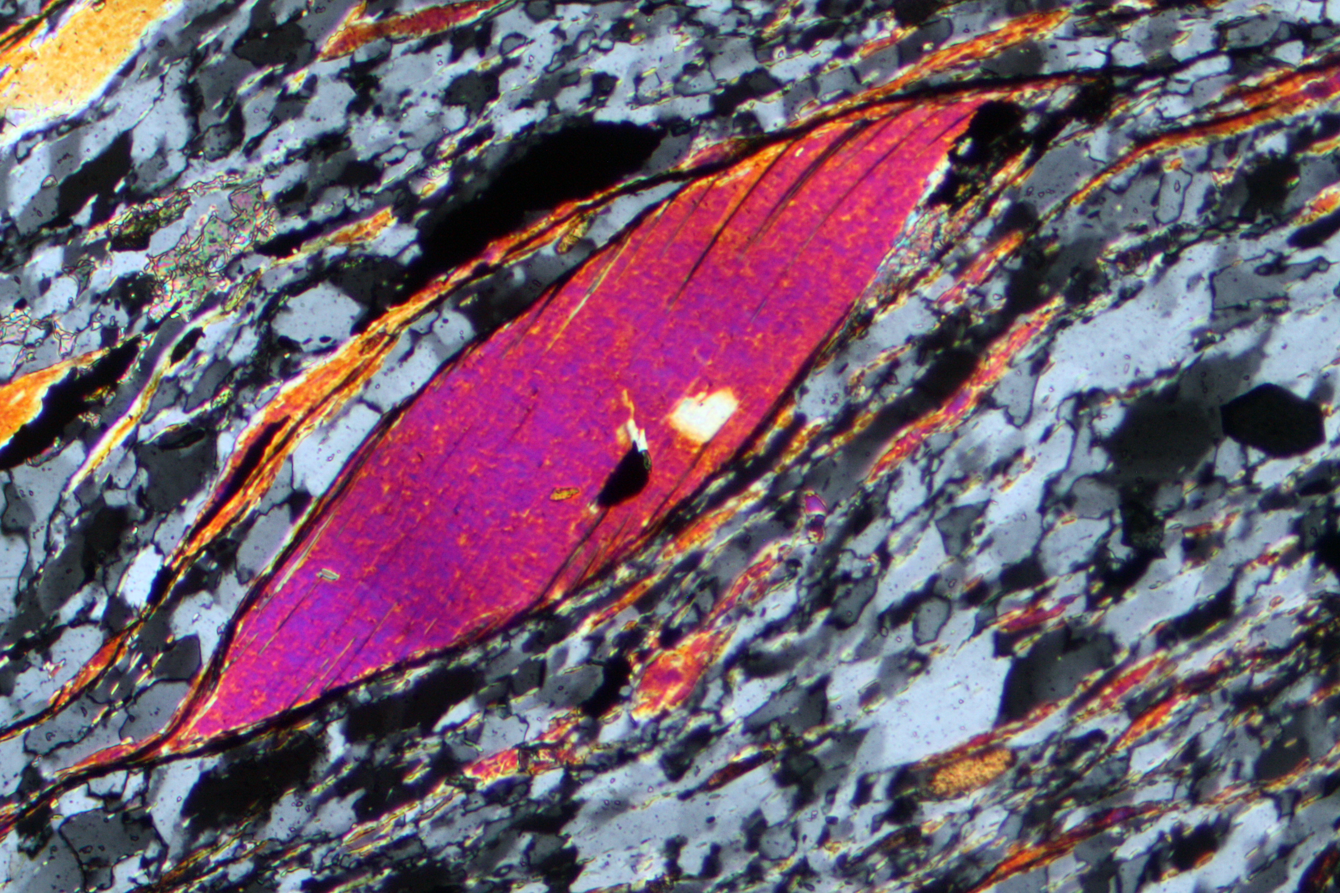 Small mica fish (defromed mica crystals) in a mylonitic quartzite from Italian Alps.